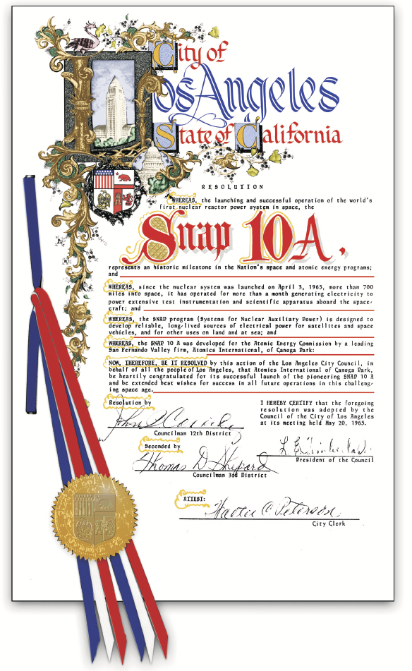 The City of Los Angeles presented this decorative resolution to Atomics International on May 20, 1965 following the successful launch and operation of the SNAP-10A nuclear reactor.